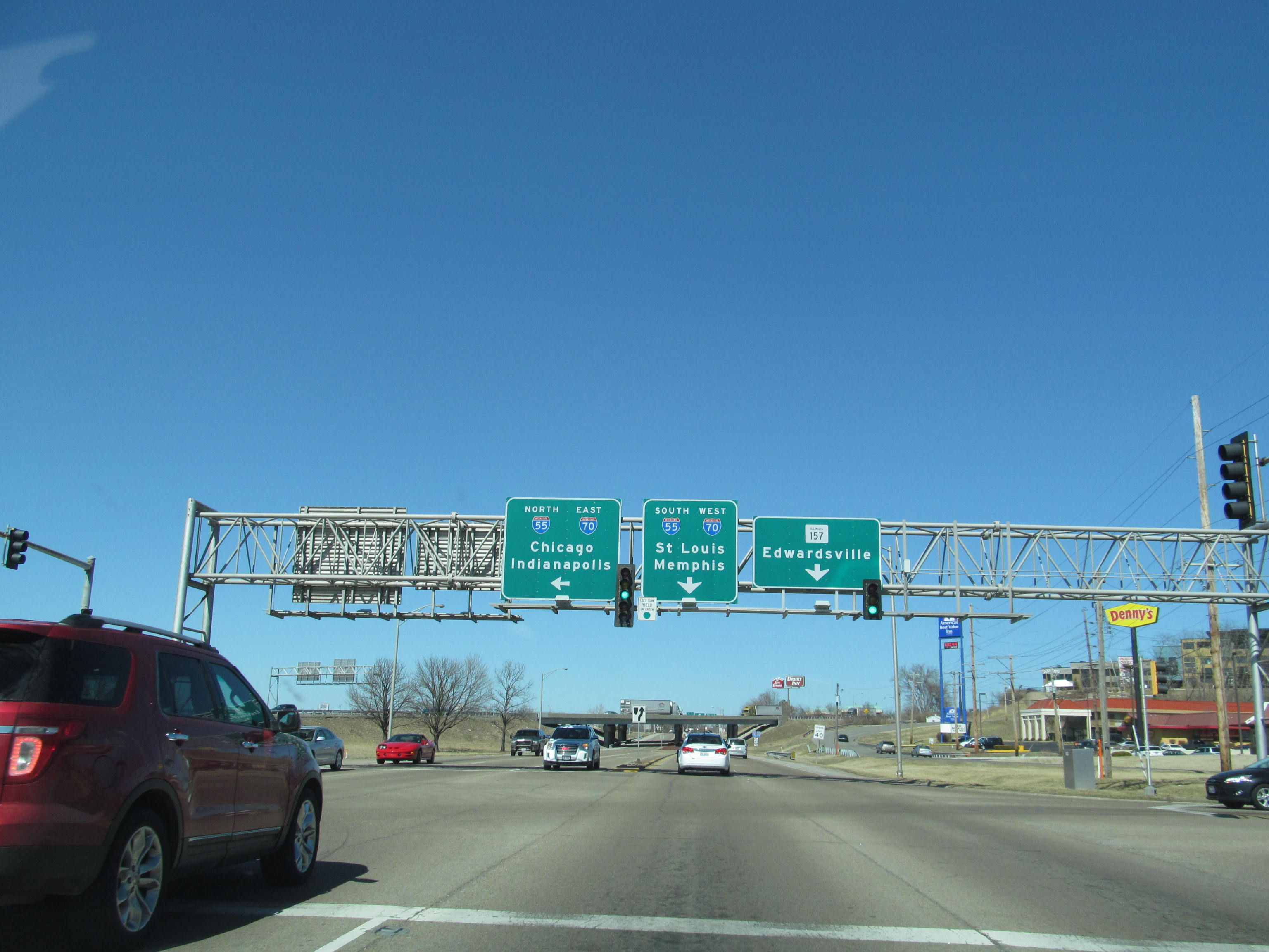 Illinois Route 157 at Interstate 55 and Interstae 70